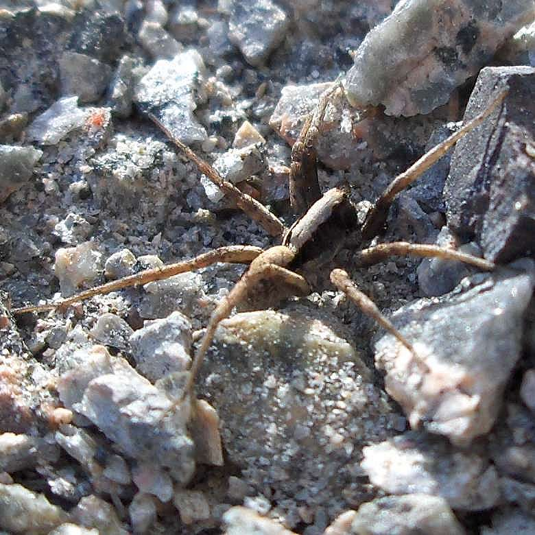 The Wolf Spider Alopecosa barbipes, male